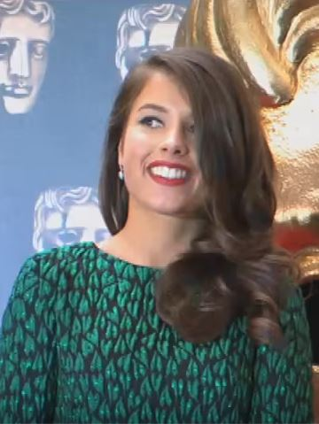 Aimee Kelly at the Children's BAFTA Awards in 2013.